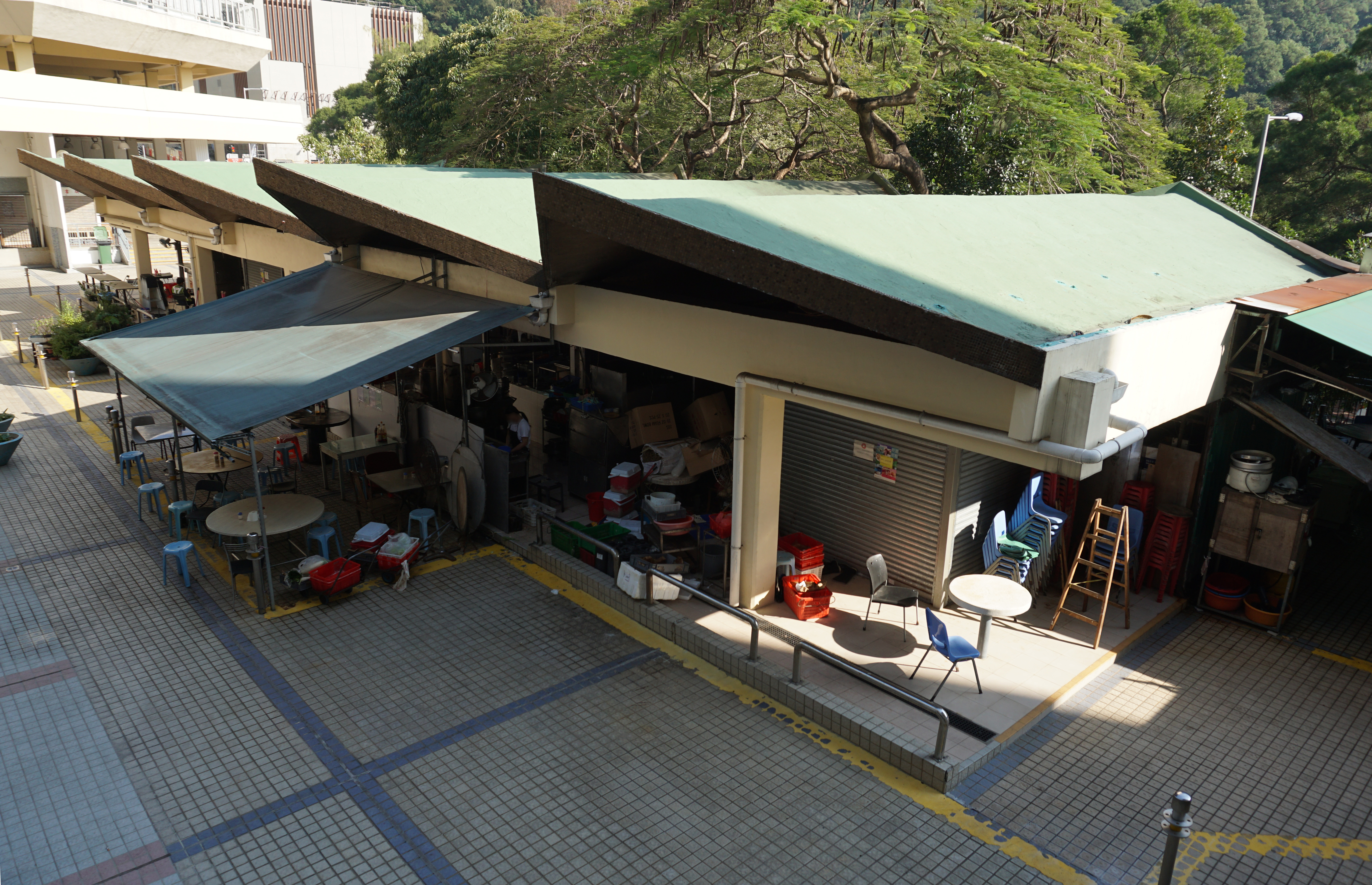 Cheung Shan Estate in Tsuen Wan, Hong Kong.